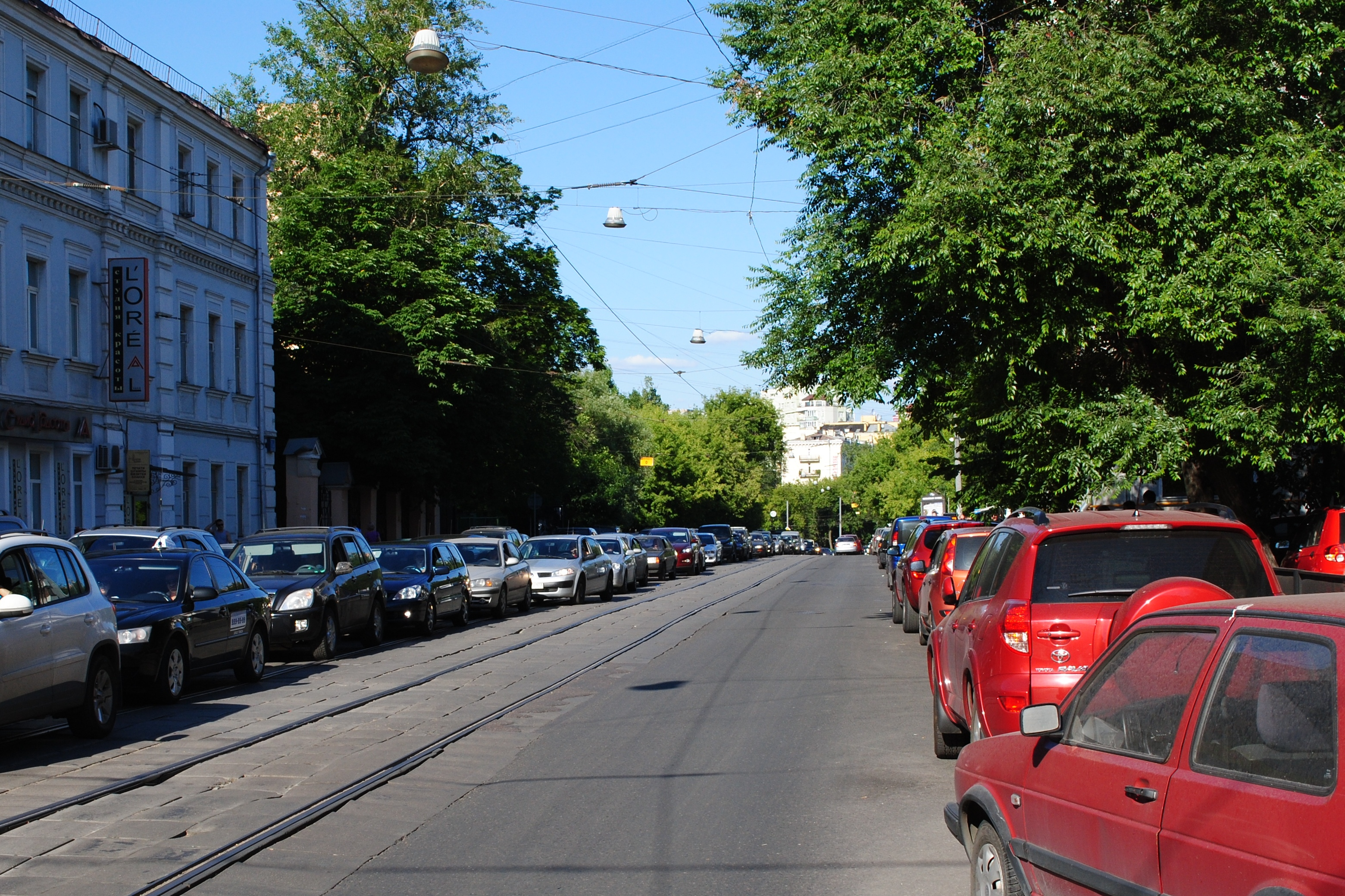 Palikha street from Novoslobodskaya street